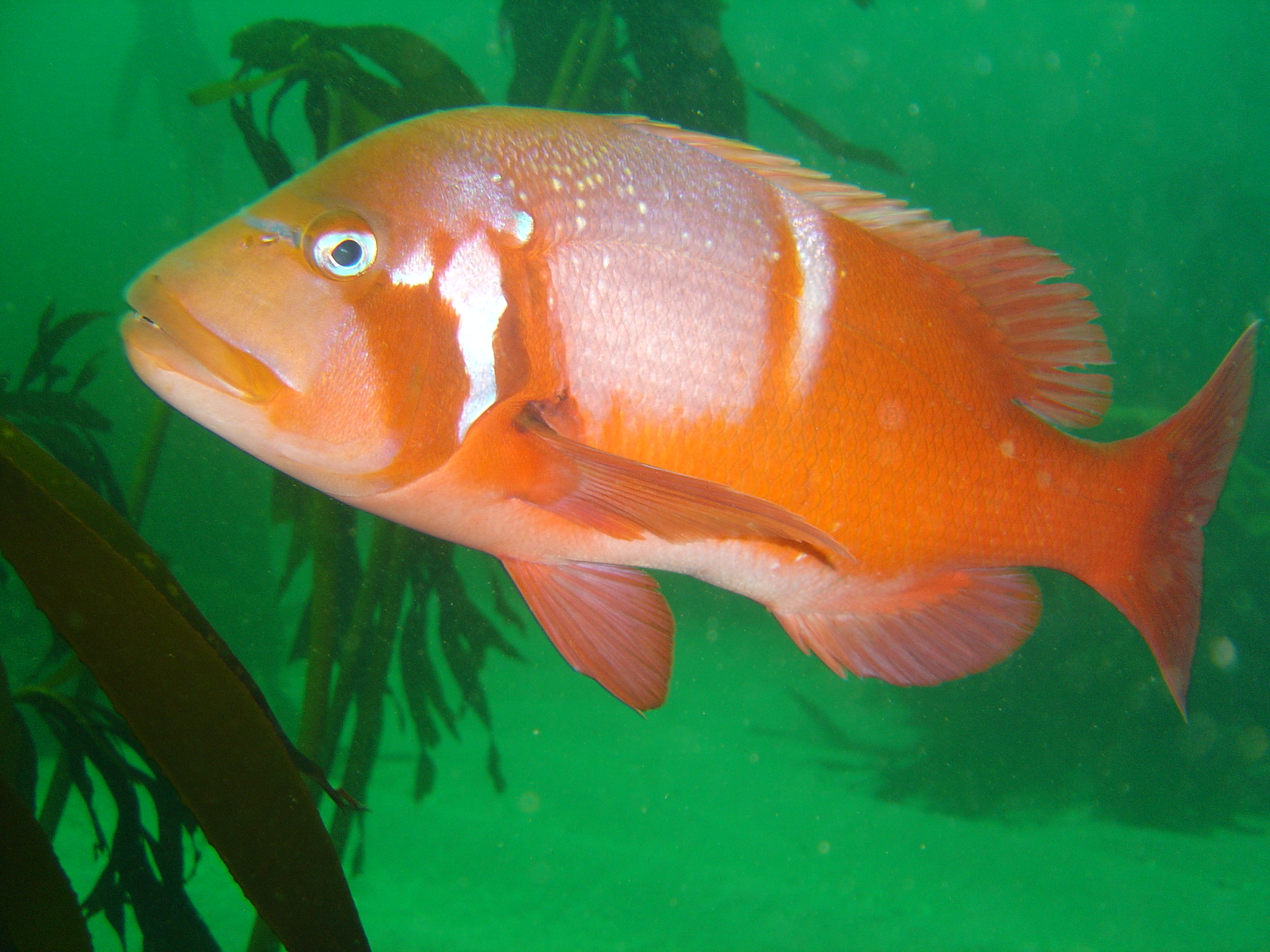 False Bay.